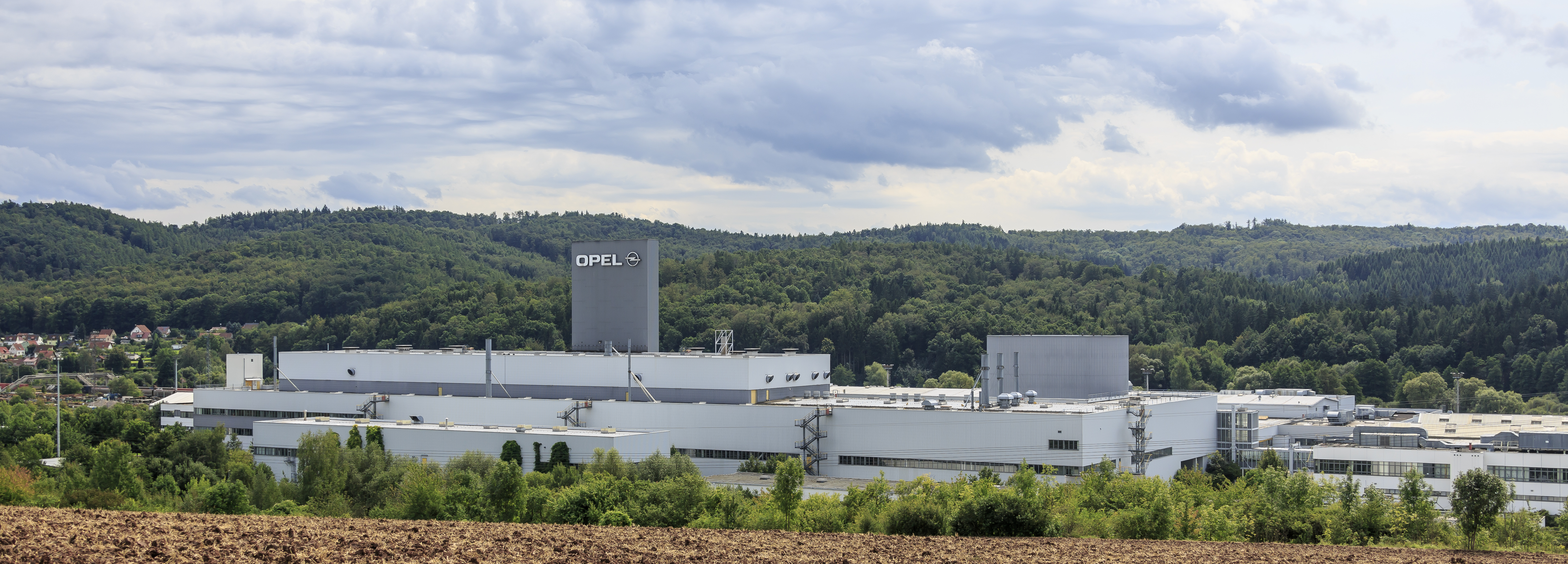 Eisenach, Germany: Opel-Werk